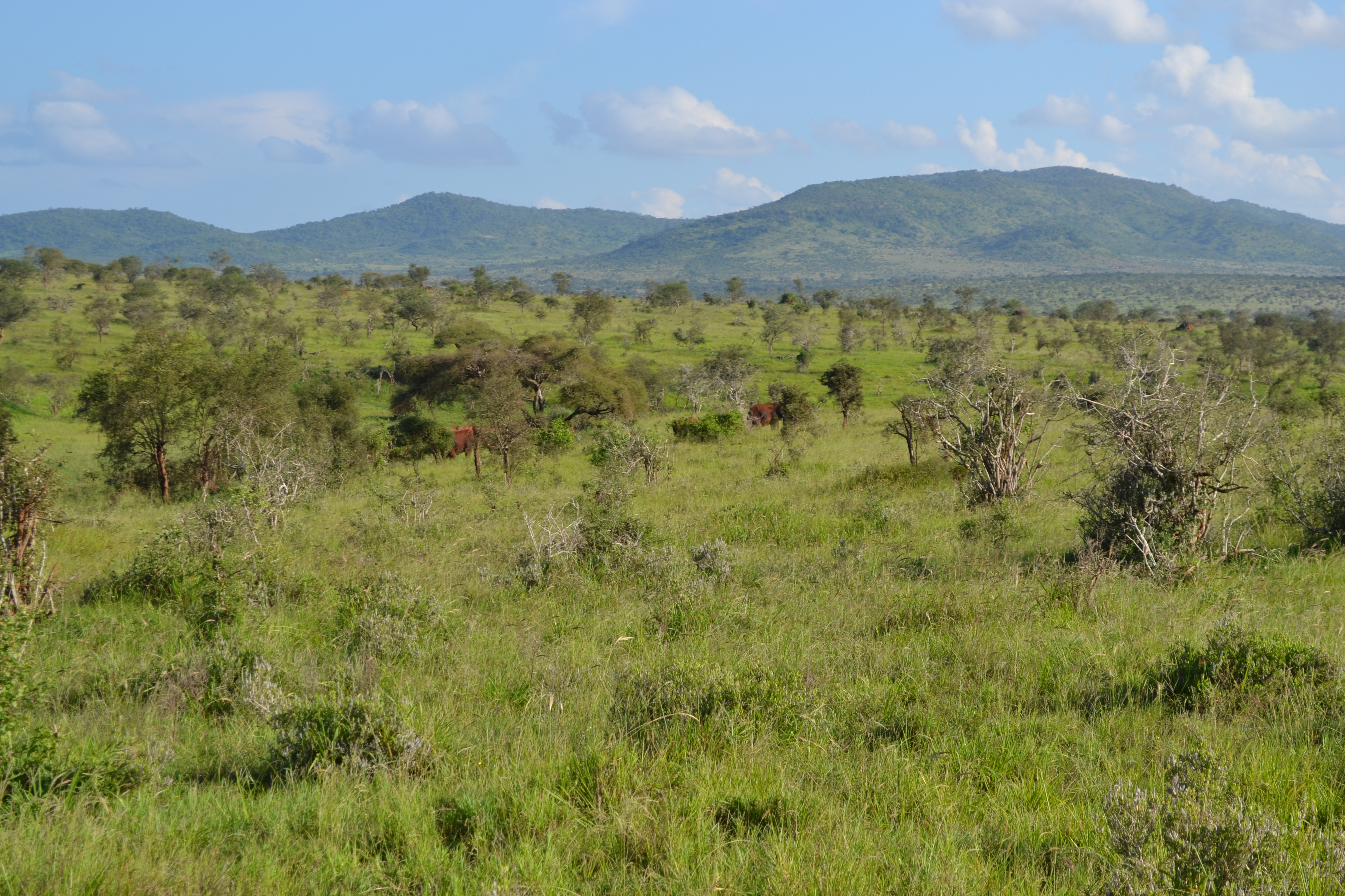 View of the savanna, towards the south-east, photographed south-west of the Taita Hills Game Lodge, near the eastern boundary of the LUMO Community Wildlife Sanctuary, in Taita Hills Wildlife Sanctuary, Kenya.